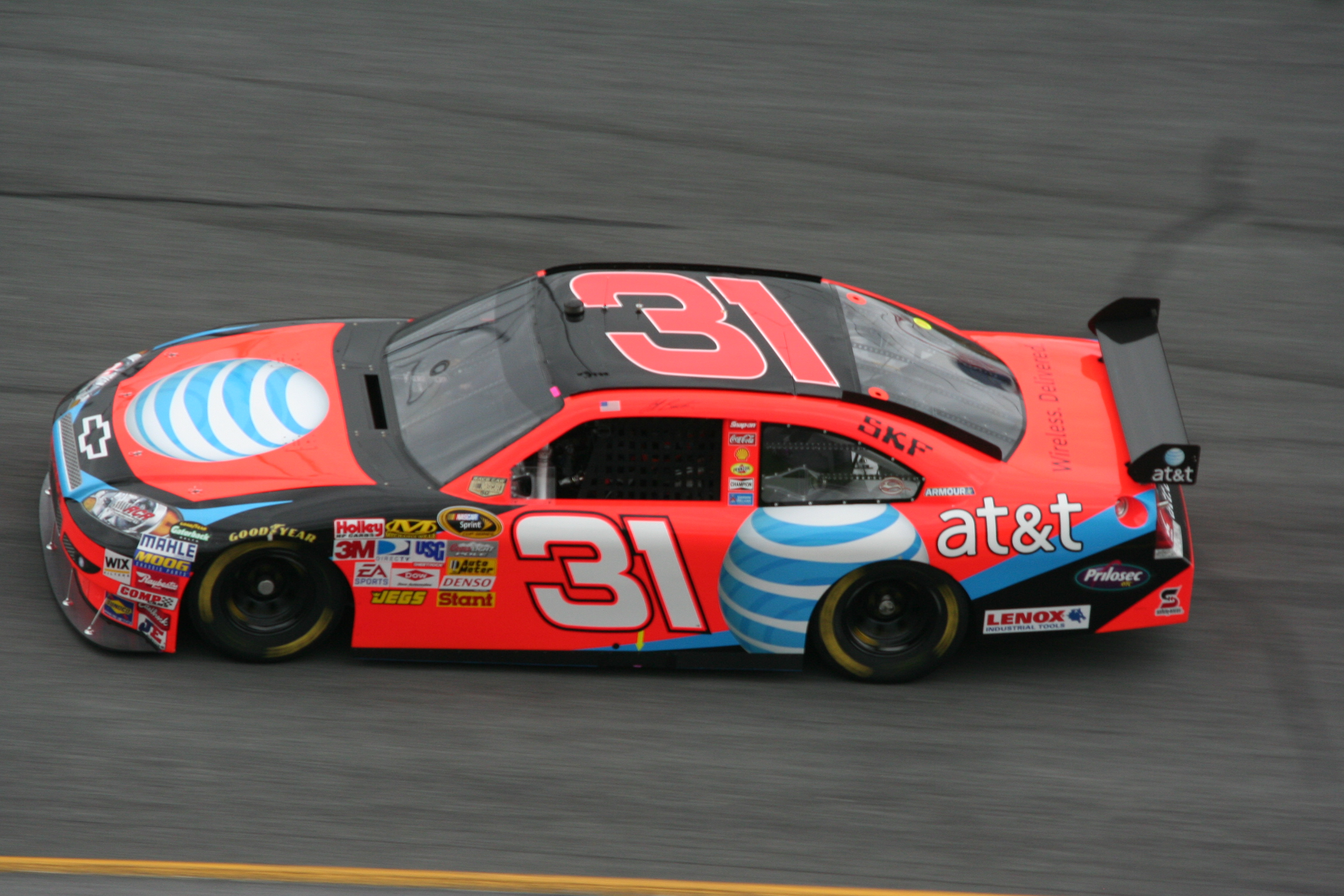 Shot by The Daredevil at Daytona during Speedweeks 2008Jeff Burton AT&T Chevy Impala